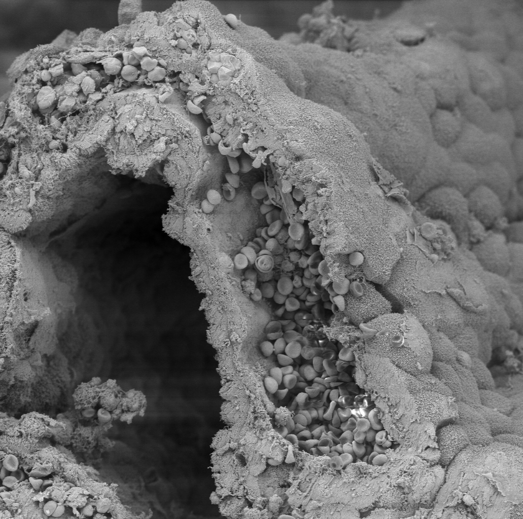 cross section of the yolk sac of a dog, SEM-image